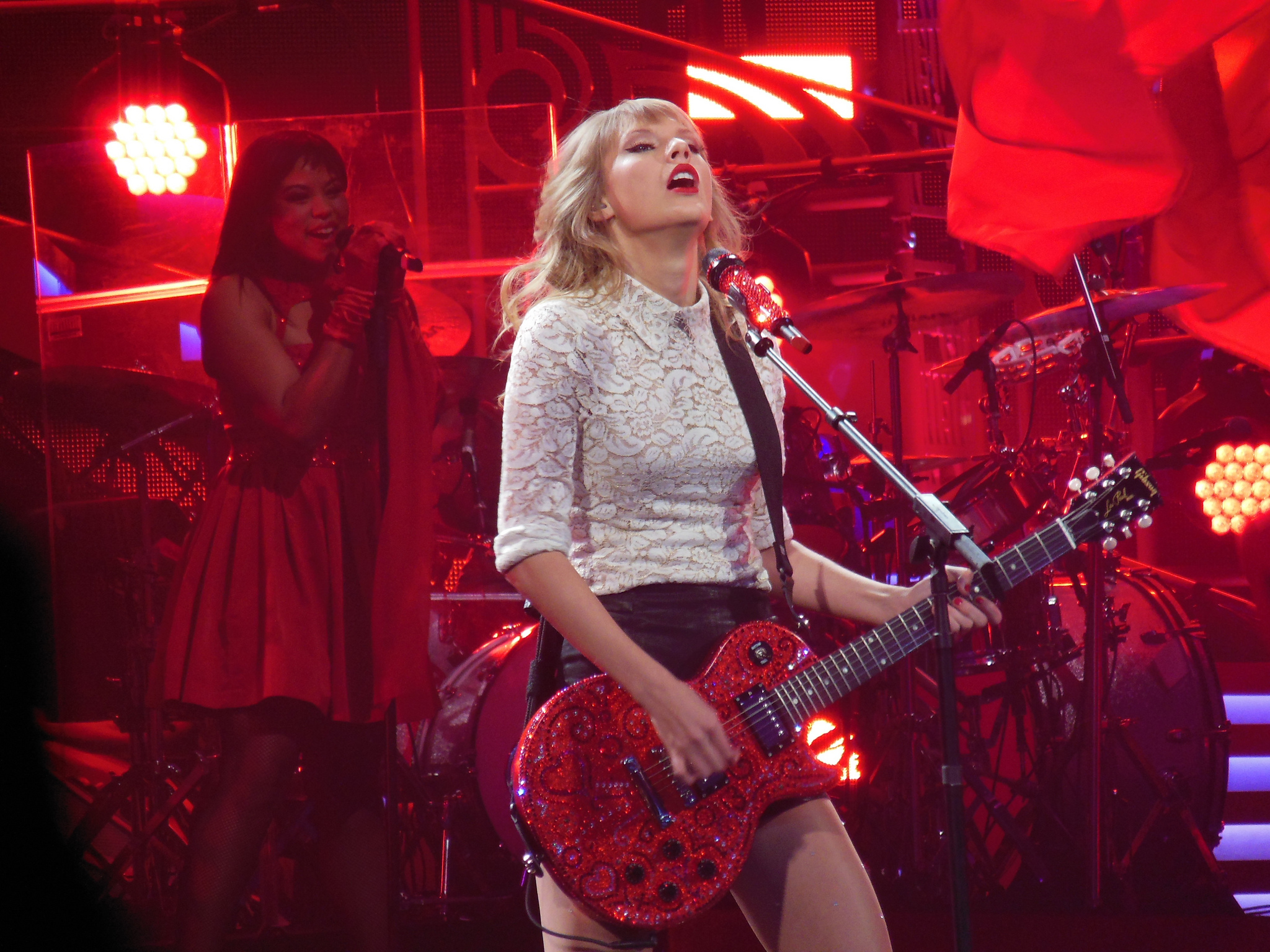 Taylor Swift during the Red Tour, March 2013